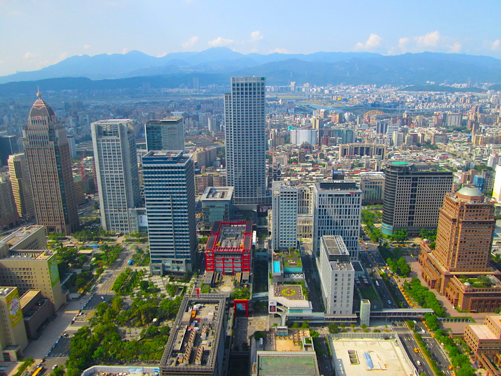 View of Taipei from Taipei Nan Shan Plaza Observatory at 228.5m